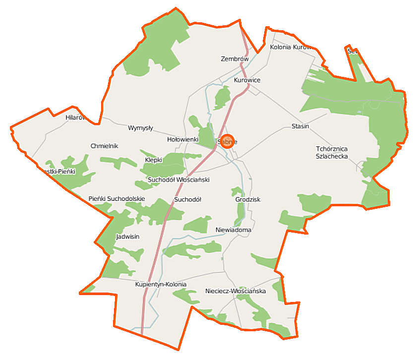 Map of Gmina Sabnie, Poland This map of Sabnie (gmina) was created from OpenStreetMap project data, collected by the community. This map may be incomplete, and may contain errors. Don't rely solely on it for navigation. Border coordinates52.550522.1797←↕→22.412152.4290